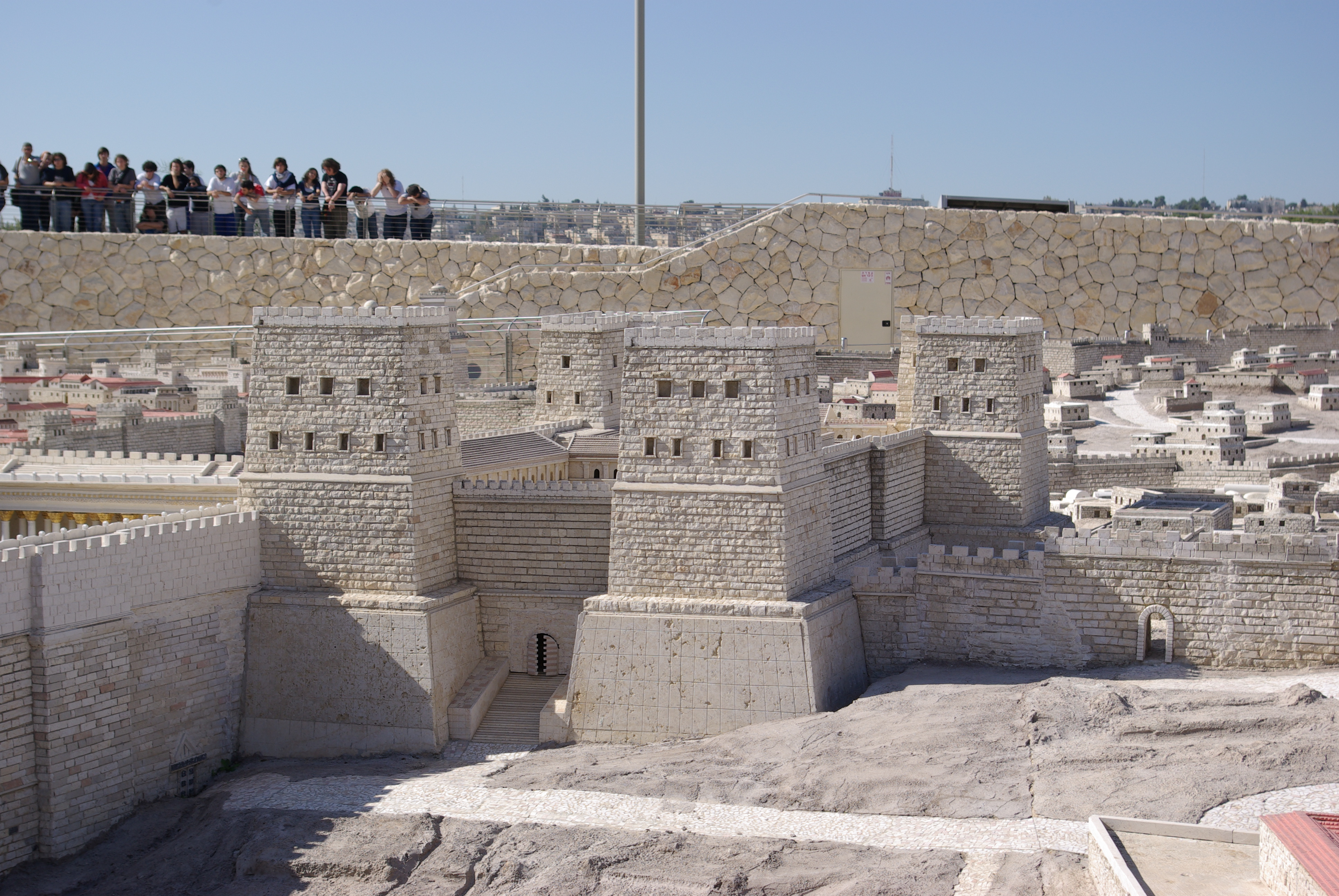 Jerusalem Model, Antnia Fortress